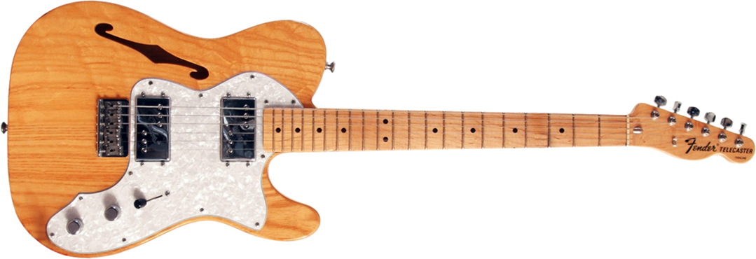 A Fender '72 Telecaster Thinline electric guitar